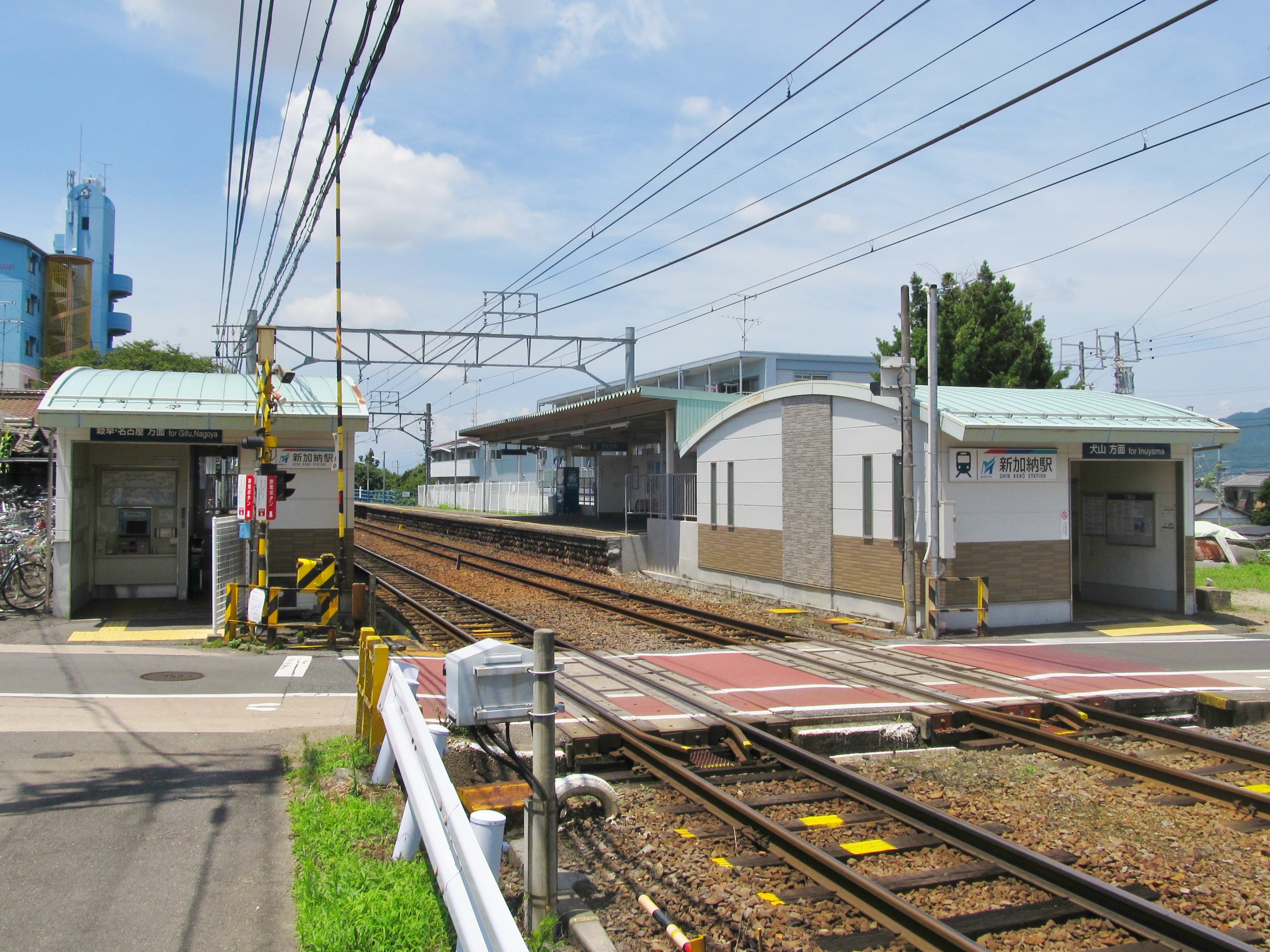 Nagoya Railroad Kakamigahara Line Shin Kanō Station Building